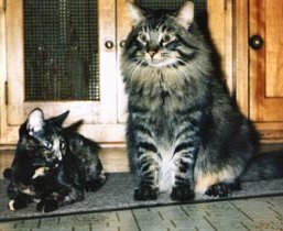 The cat on the right of the picture is a Maine Coon.